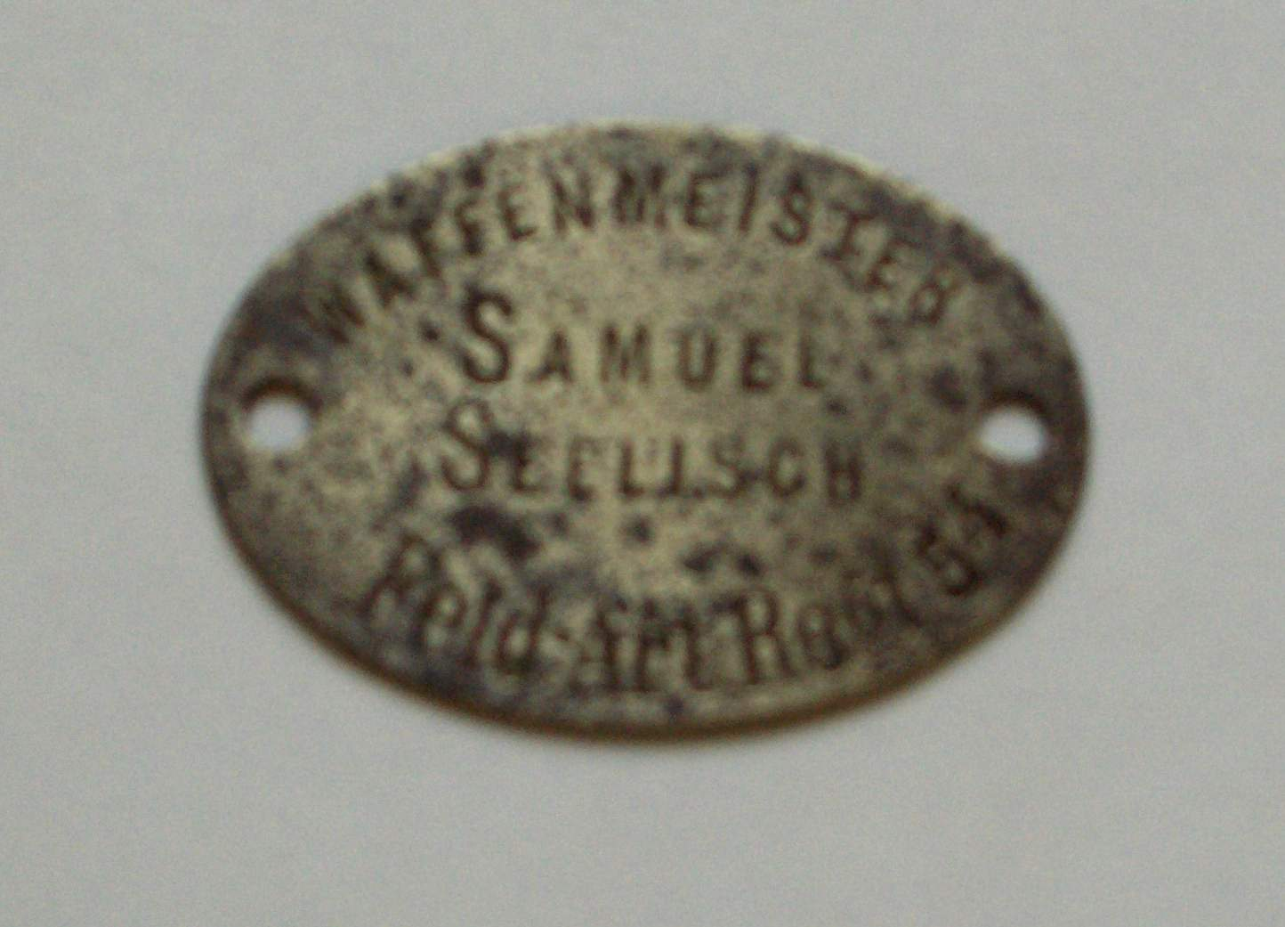 Dog tag of Samuel Seelisch, 54th Field Artillery Regiment